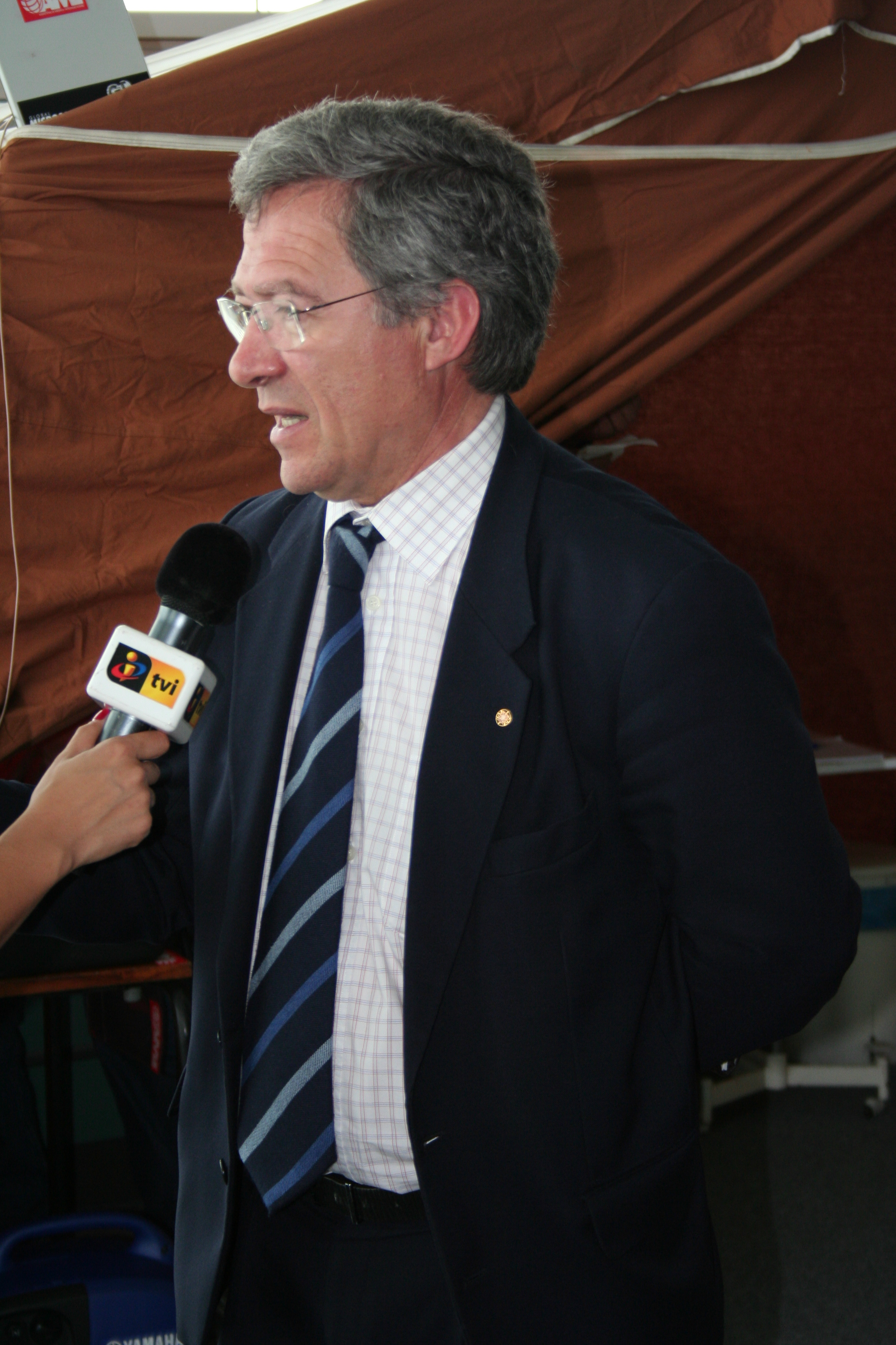 Fernando Nobre, president of the Portuguese NGO "International Medical Assistance".